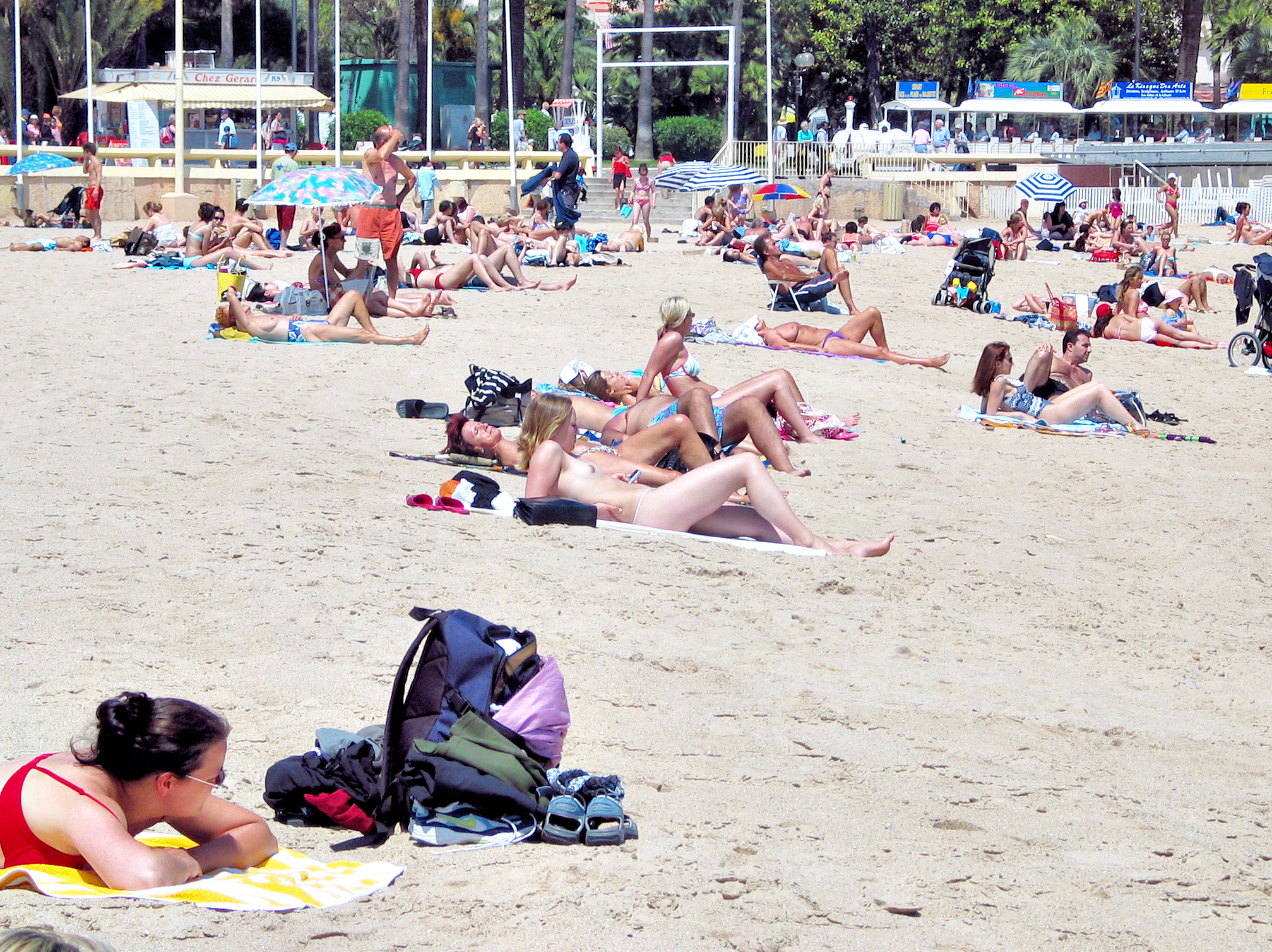 A bit of an eye-opener for a verkrampte South African or two, I'm sure.